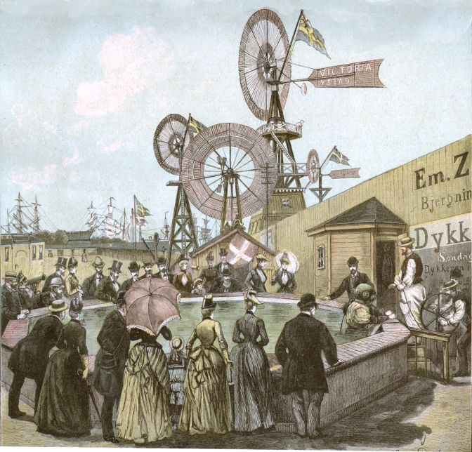 At the diving pool exhibit